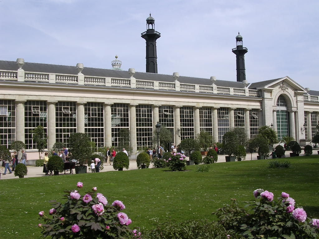 The Royal Greenhouse of Laeken in Brussels, Belgium was built between 1874 to 1895 on the orders of King Leopold II of Belgium.